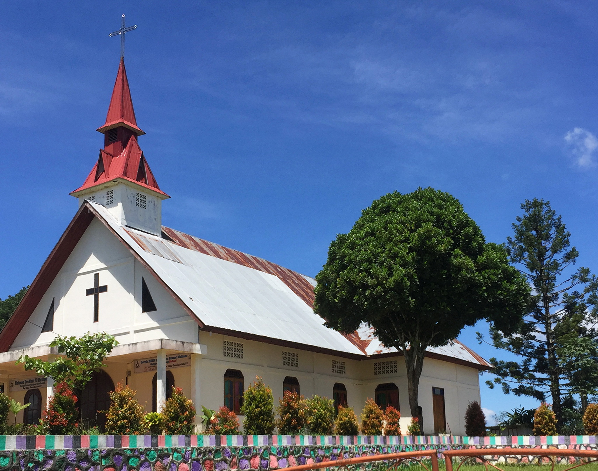 HKBP Batu Nadua, Church in Batu Nadua, Pangaribuan, North Tapanuli